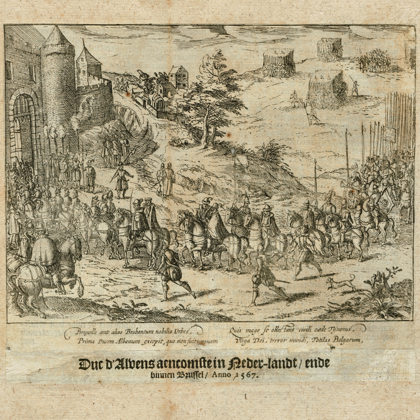 Print from 'The Wars of Nassau' by G. Baudartius, published in Amsterdam by M. Colin de Thovoyon in 1616. Subject: the arrival of the Duke of Alba in Brussels, Anno 1567 (Governor of the Netherlands 1567-1573).